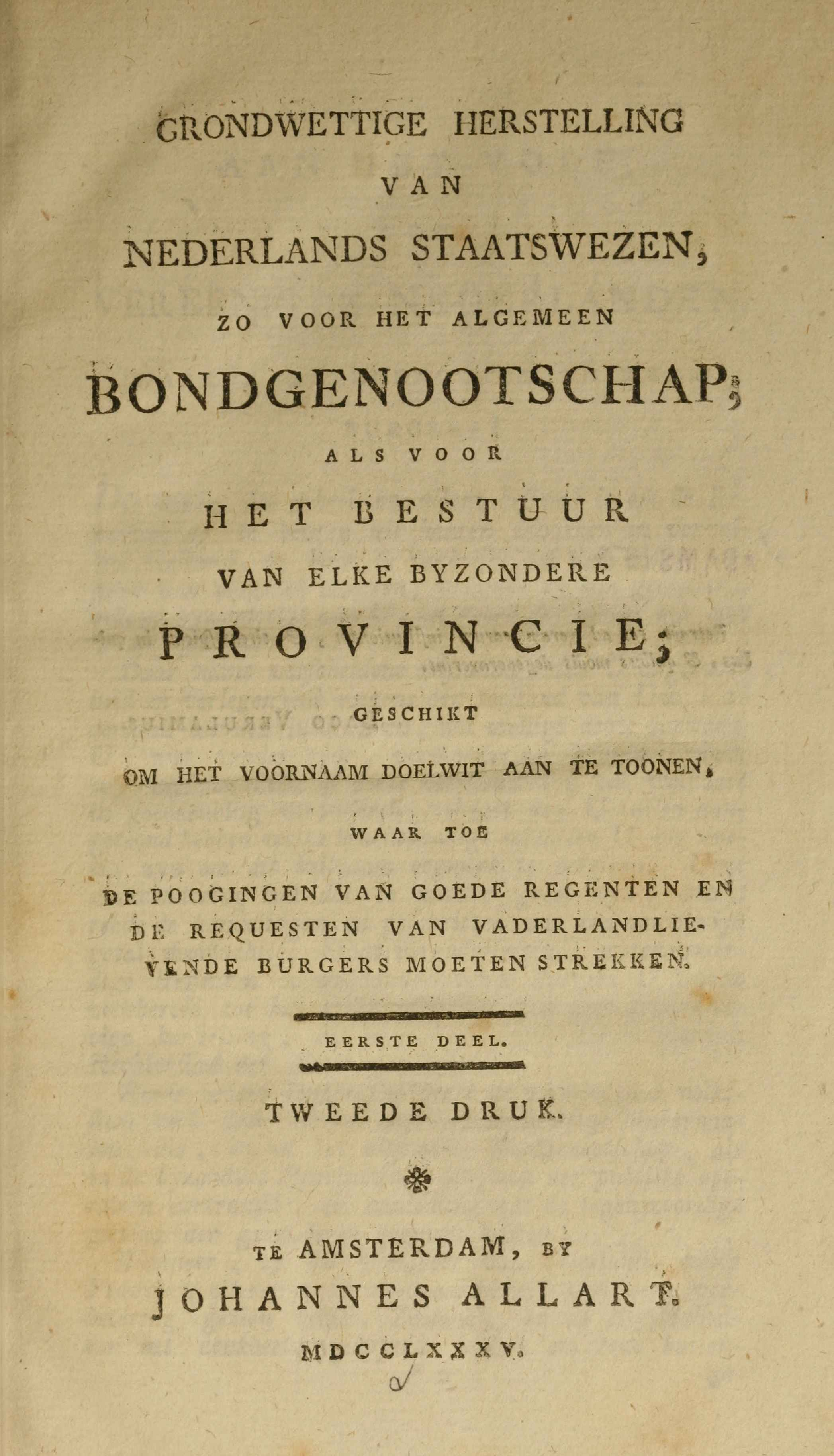 Cover page of the book "Grondwettige Herstelling, van Nederlands staatswezen: zo voor het algemeen Bondgenootschap, als voor het bestuur van elke byzondere Provincie"